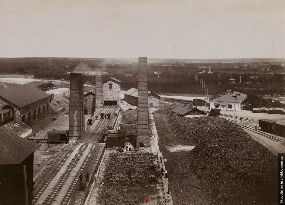 Industrial Revolution in Kryvyi Rih